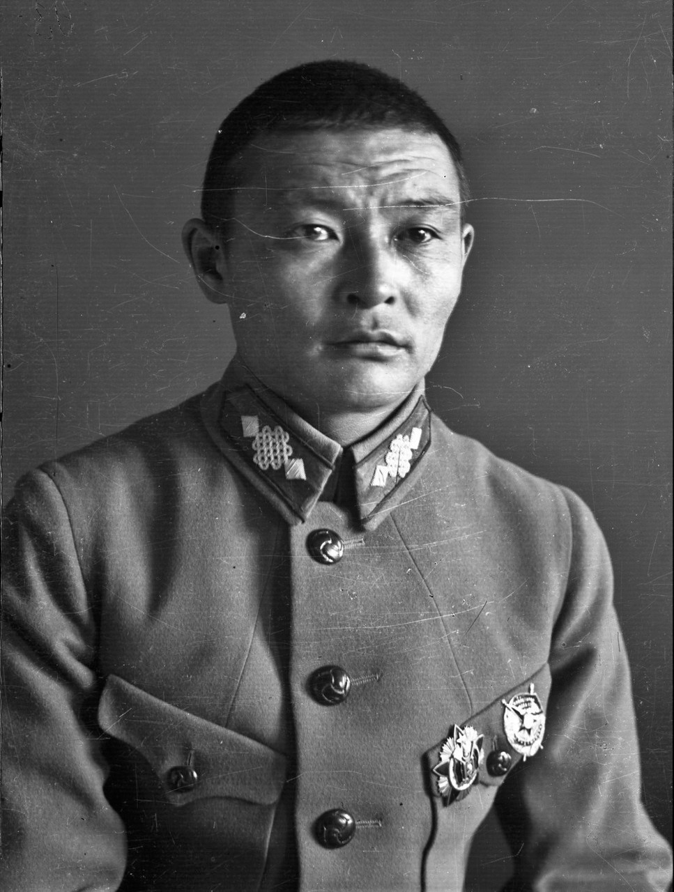 Khorloogiiin Choibalsan, photo taken around 1925